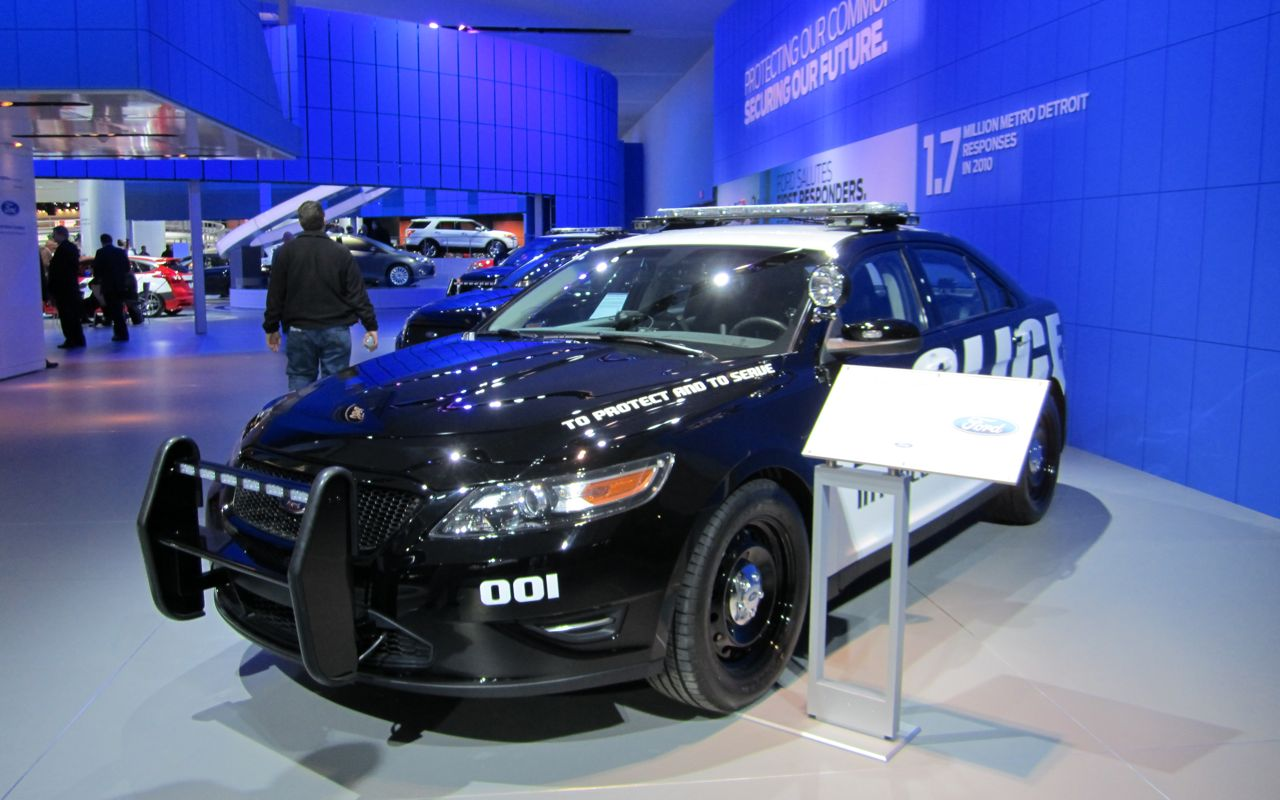 2011 North American International Auto Show. Detroit, Michigan